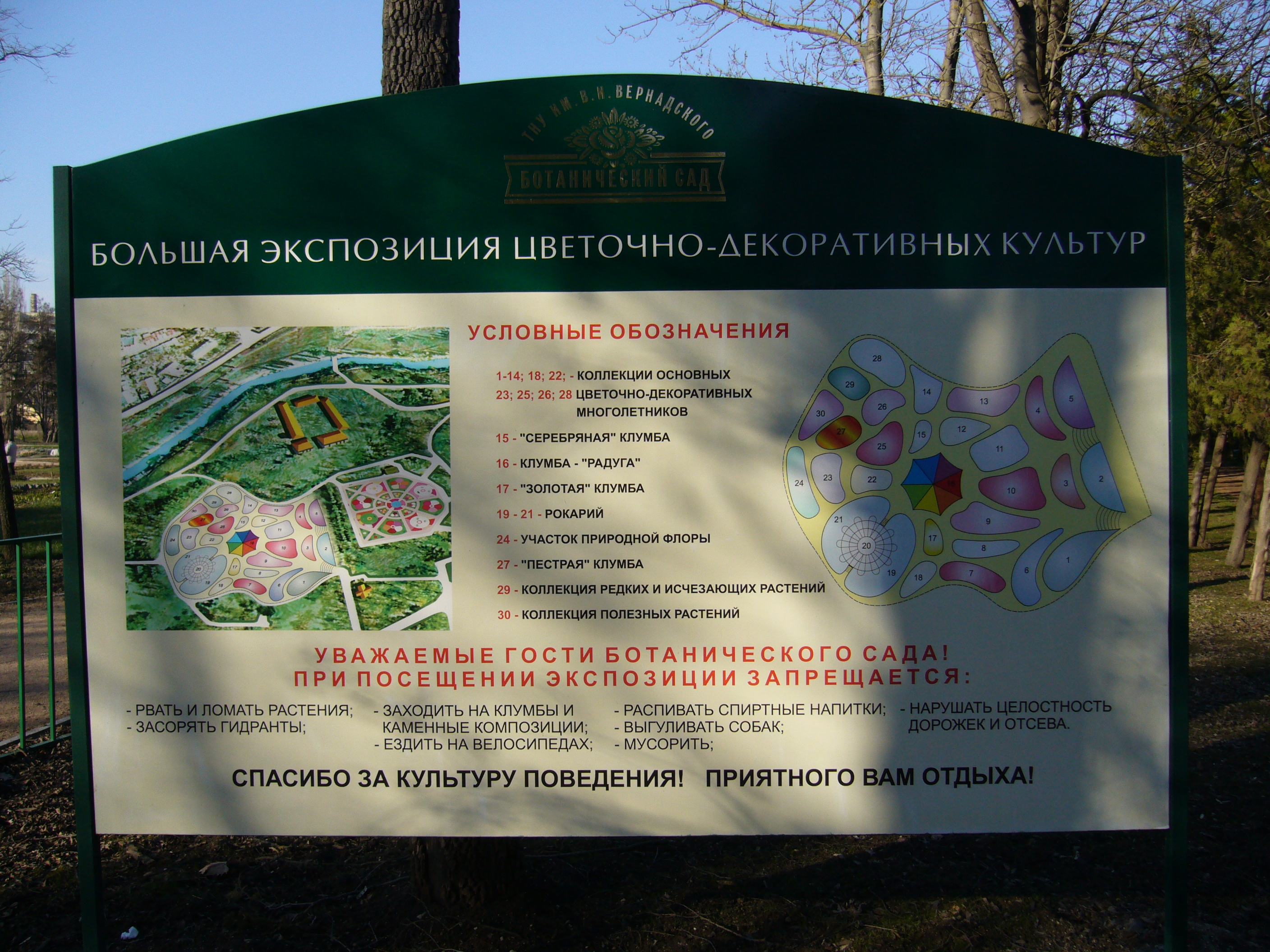 The botanical garden of the Taurida National Vernadsky University in Vorontsovsky park in Simferopol, the capital city of the Autonomous Republic of Crimea, Ukraine.